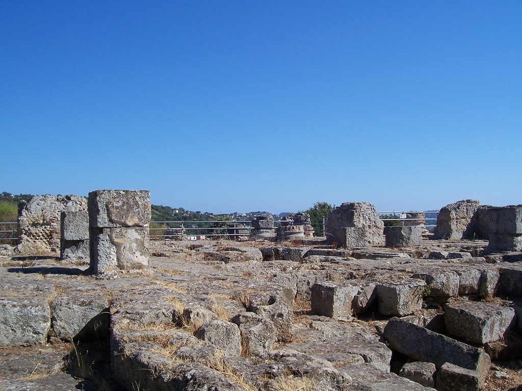 Temple of Apollo at Cumae.